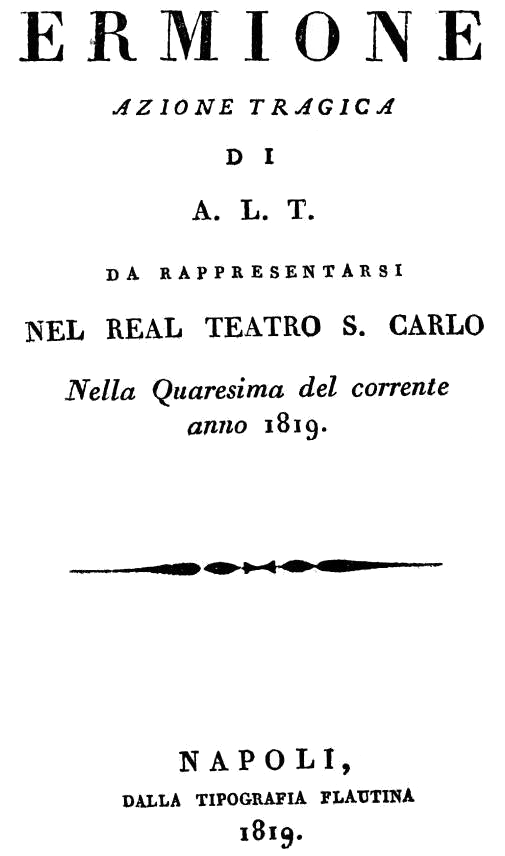 Gioachino Rossini - Ermione - titlepage of the libretto - Naples 1819